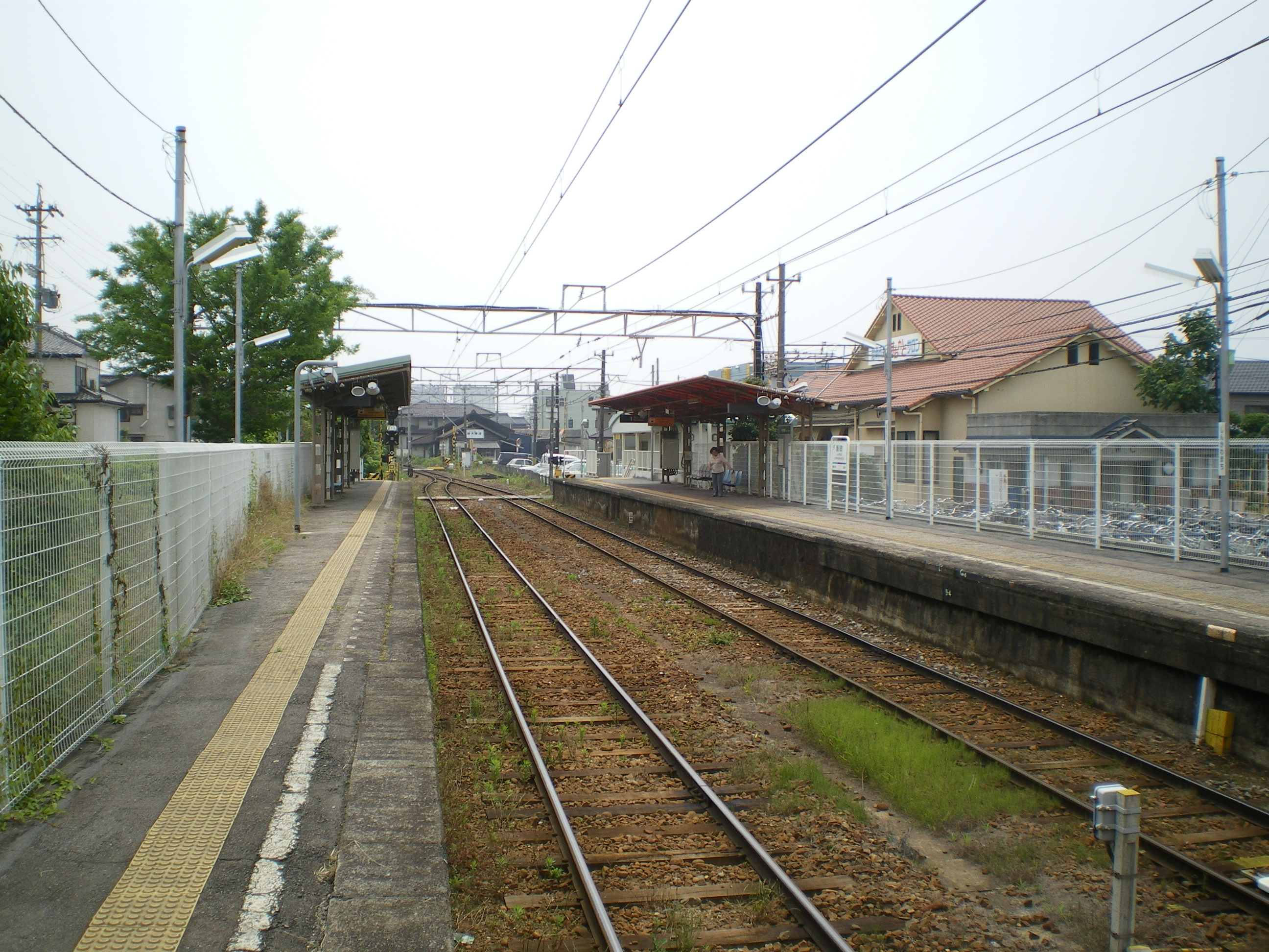 Nagoya Railroad Mikawa Line Shinkawamachi Station Platform